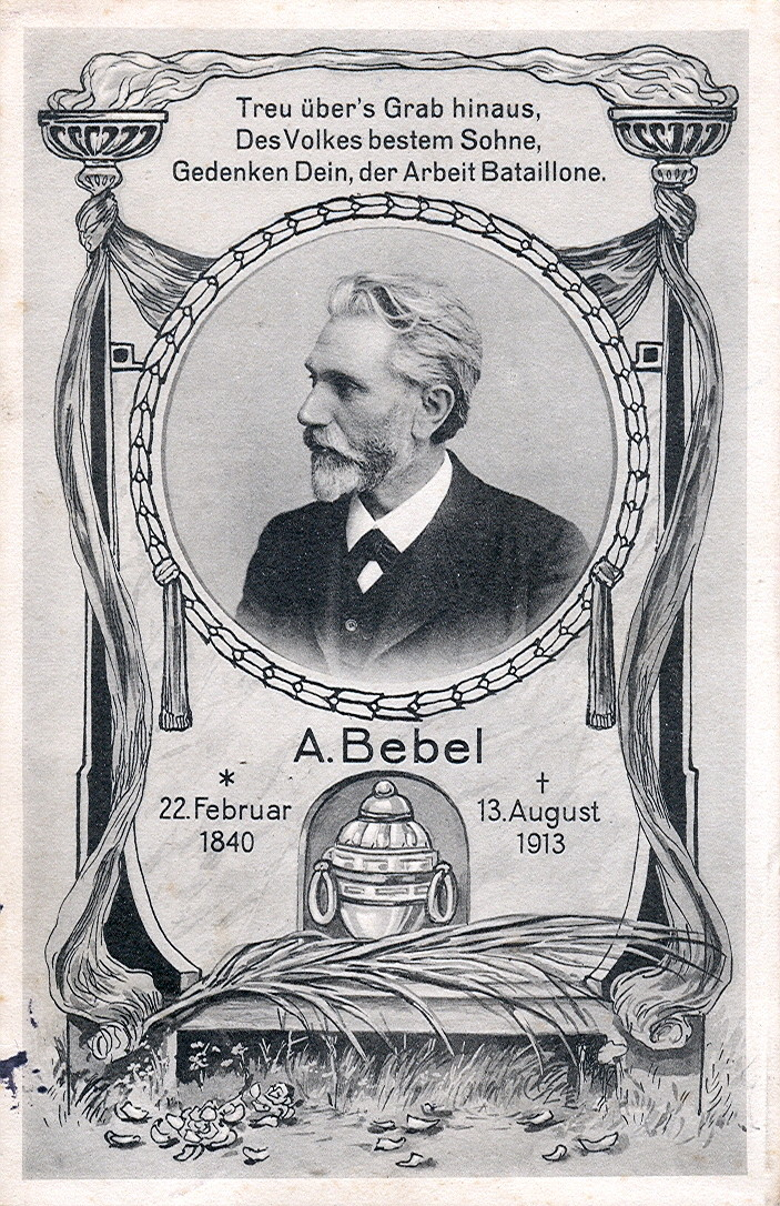 Postcard, dated 11.10.1913. Memorial postcard for the death of German labour leader August Bebel.